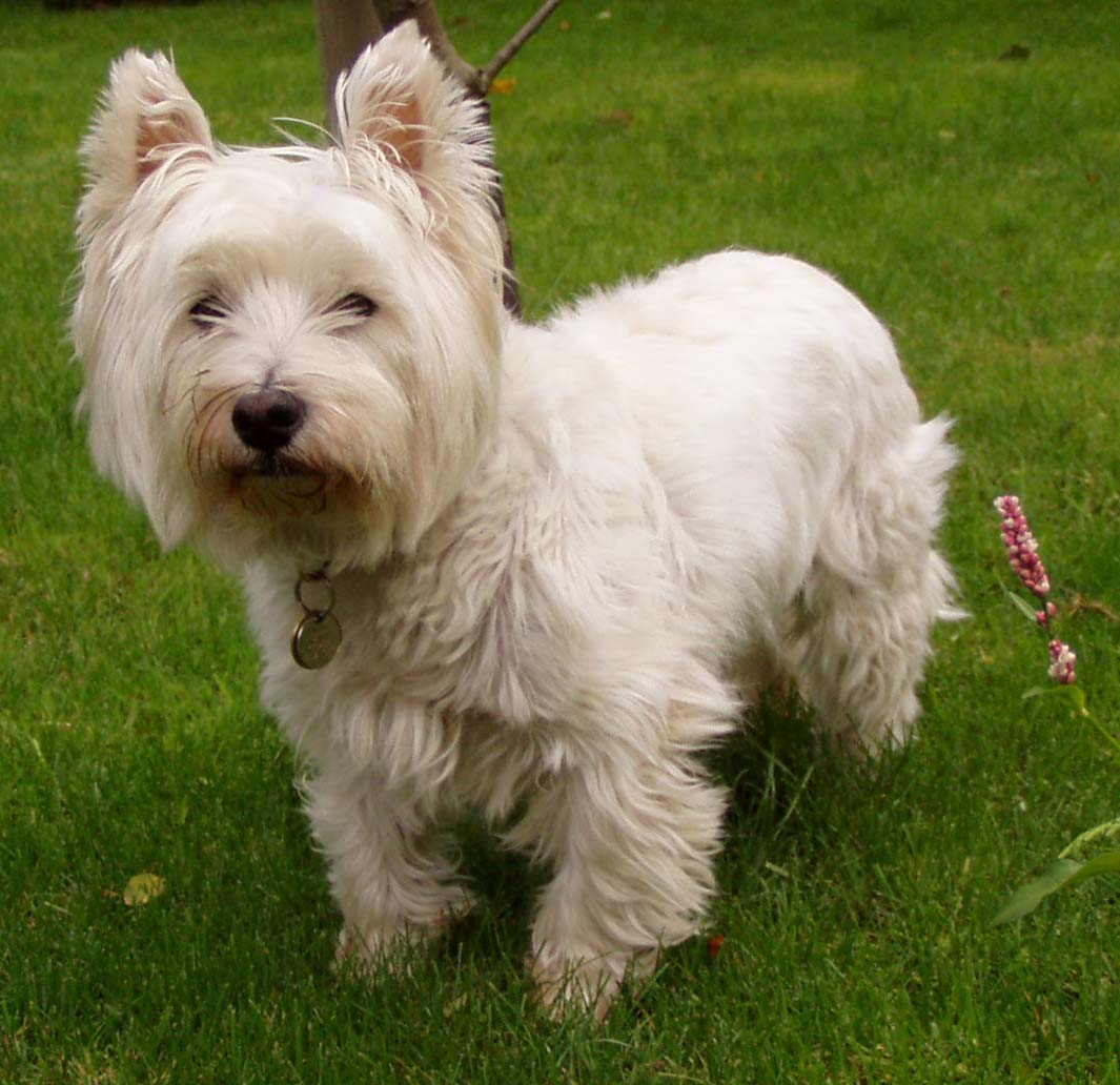 Photograph of a West Highland White Terrier, created by Viki Male 15/09/04